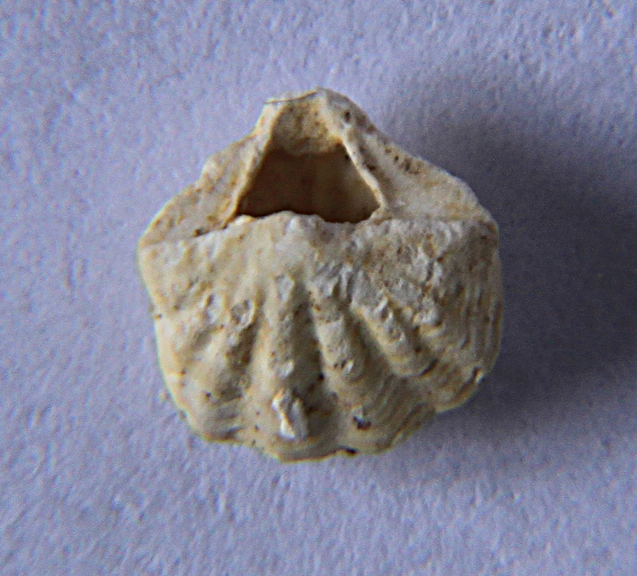 An Argyrotheca cuneata lampshell, Order Terebratulida, Family Megathyridae, 4mm along the axis, brachial valve, collected near Weglinek, Poland, from the Miocene (Langhian)